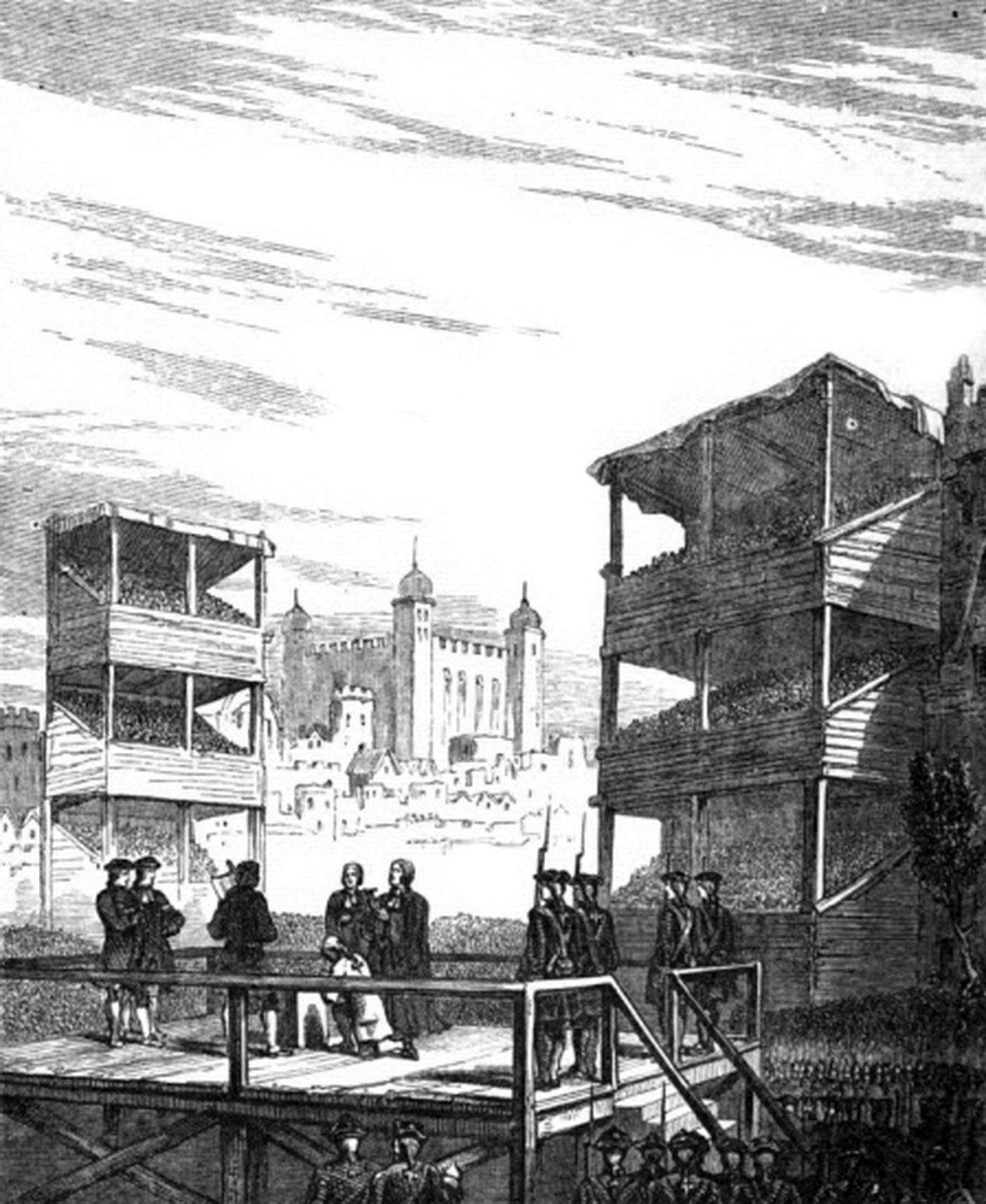 The title is the same as the image caption above and in "Cassell's Illustrated History of England, Volume 4". The number shown is the page number. Follow image link to the full book vol.4.